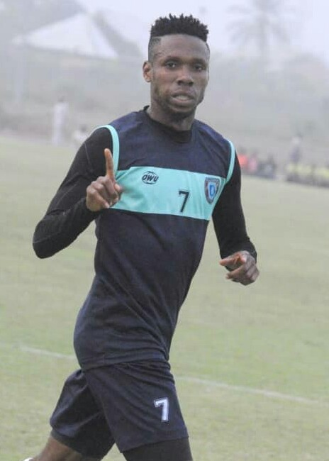 Ubong Friday during a training session